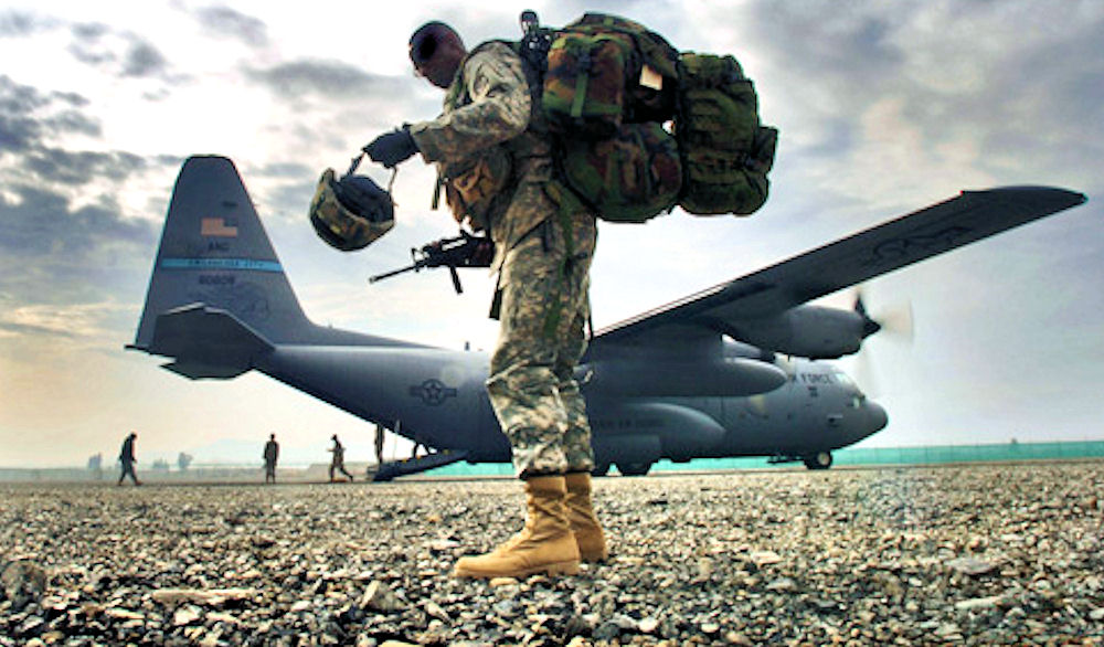 The last C-130 Hercules aircraft scheduled to leave the Hawaii Air National Guard sits in the flight line during a farewell ceremony by the 204th Airlift Squadron at Hickam Air Force Base, Hawaii, Feb. 8, 2006. In the tradition of departure from the islands, the plane is draped with a giant maile lei. The last C-130 will depart from Hickam Air Force Base on Feb. 15, 2006, to be reassigned to Peoria Air Base, Ill. The 204th Airlift Squadron, Hawaii Air National Guard, and the 535th Airlift Squadron from Pacific Air Forces, will work together as an associate unit to fly and maintain the C-17 Globemaster III aircraft. (U.S. Air Force photo by Tech. Sgt. Kristen Higgins) ..